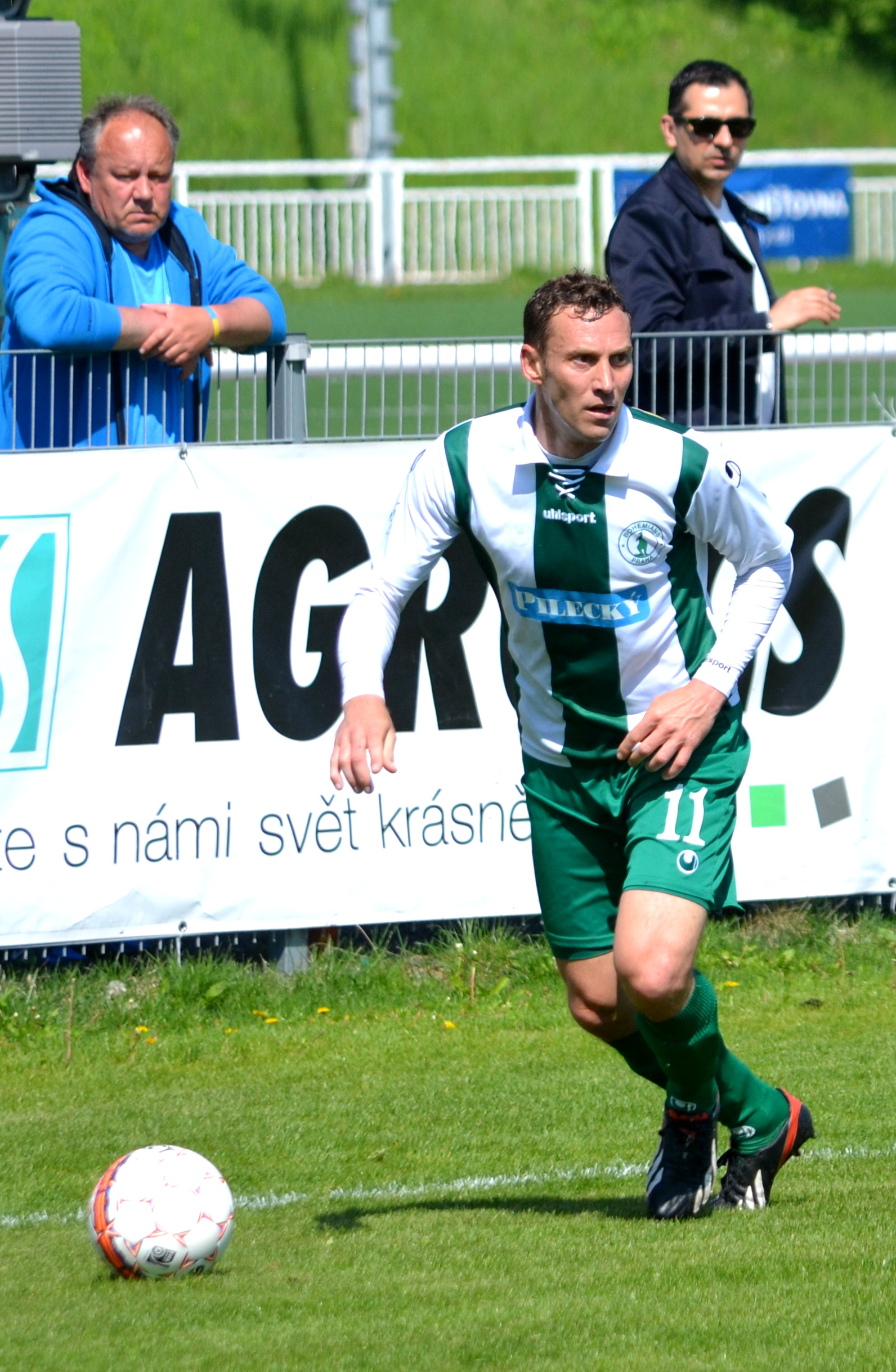 Jan Šimák, Czech footballer